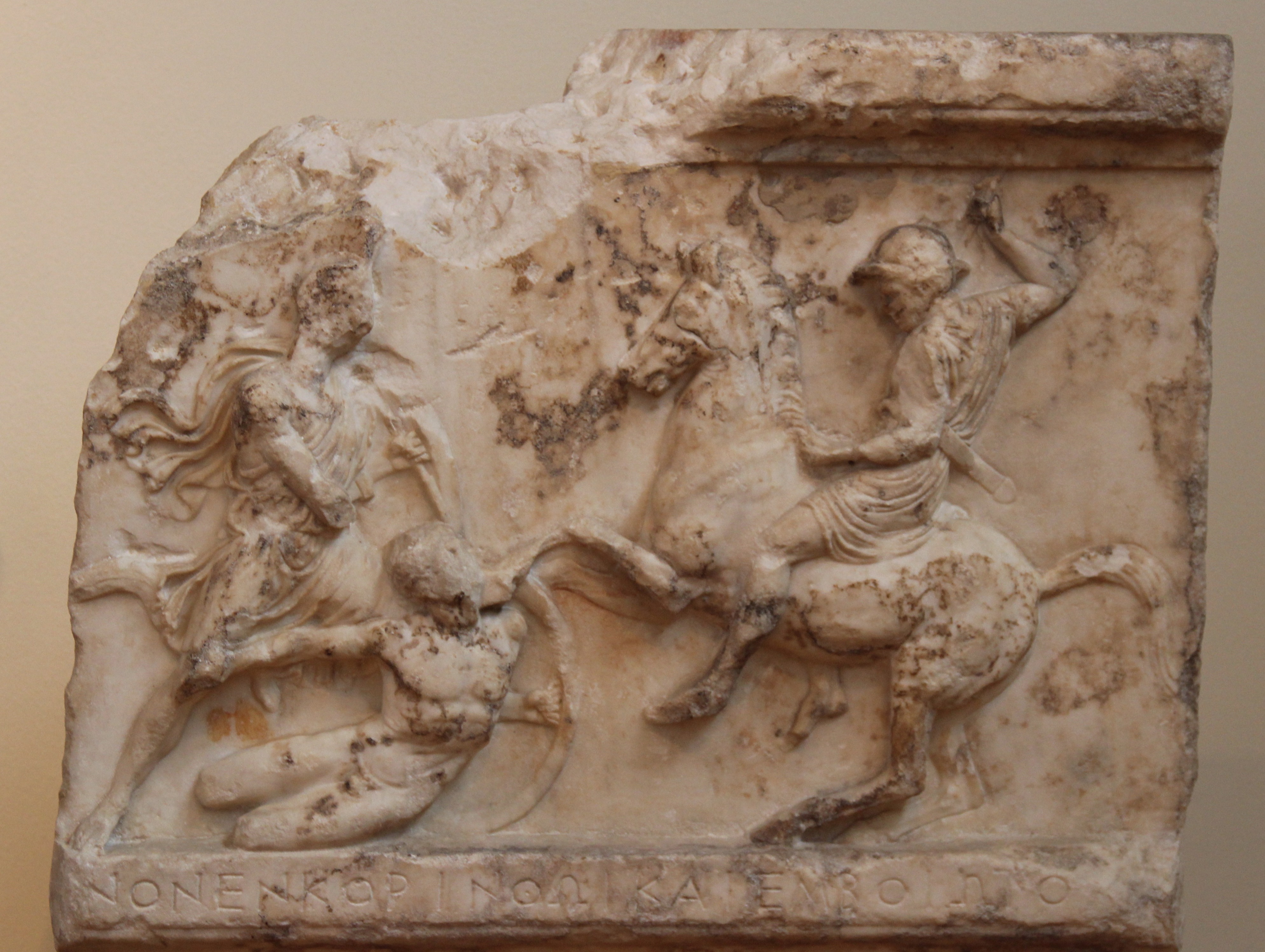 Athenian funerary stele of the Corinthian War, Athens National Archaeology Museum No.2744